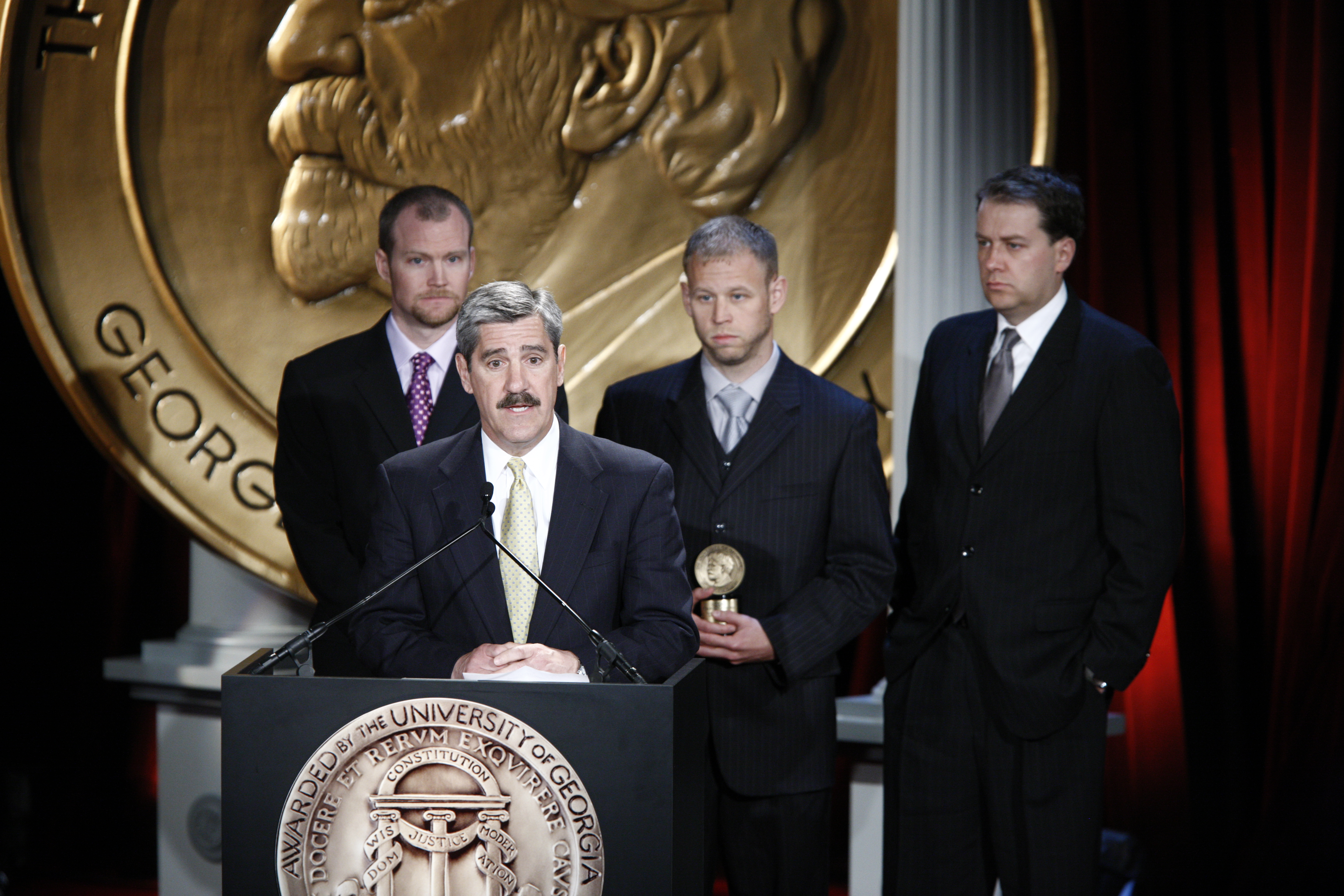 PHOTO CREDIT: ANDERS KRUSBERG / PEABODY AWARDS Tom Burke, John Ferrugia, Arthur Kane and Jason Foster 69th Annual Peabody Awards Luncheon Waldorf=Astoria Hotel New York, NY USA May 17, 2010